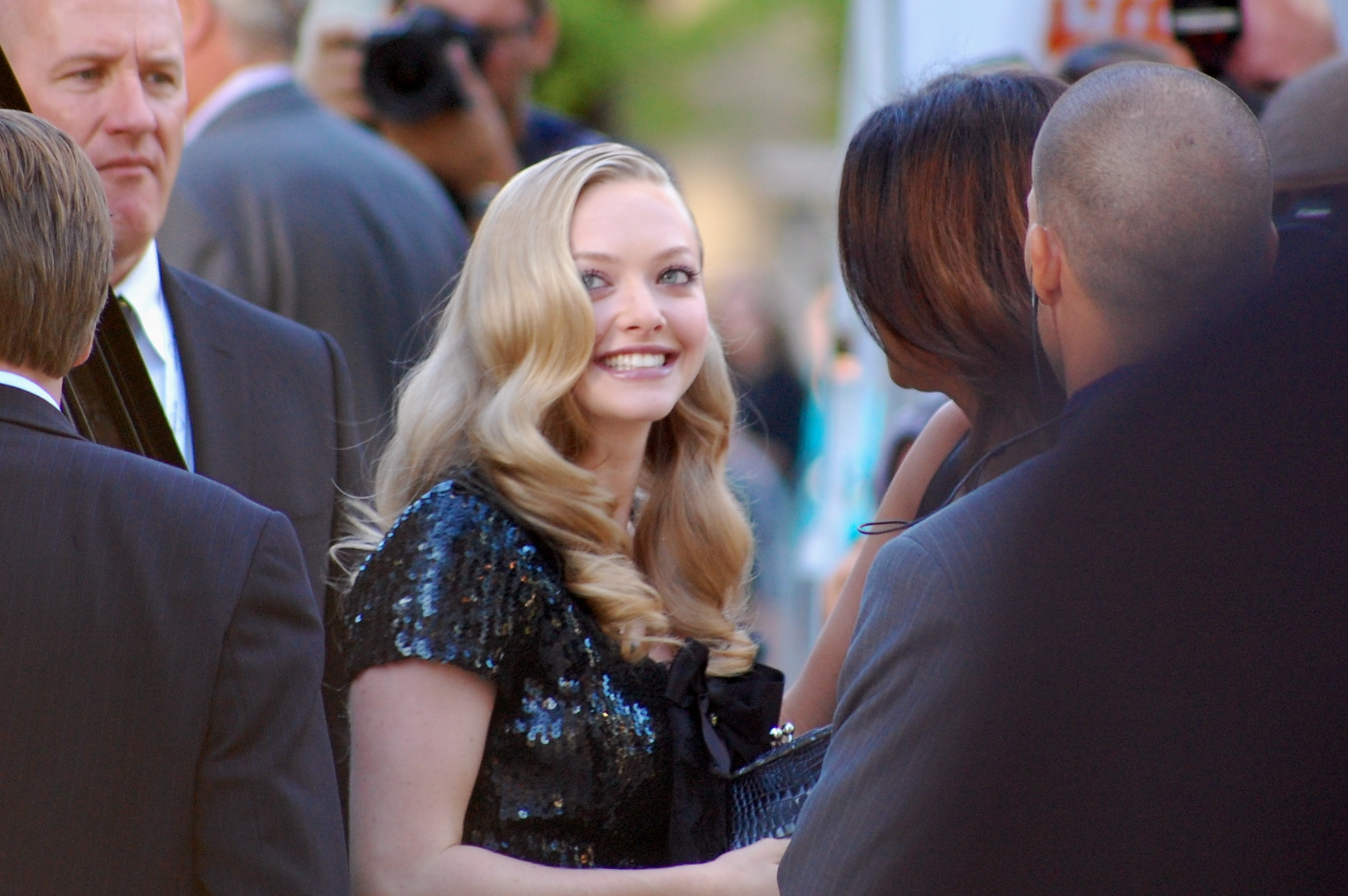 Amanda Seyfried at the 2009 Toronto International Film Festival. The "Chloe" premiere at the Roy Thomson Hall.